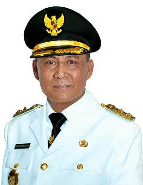 Victor Datuan Batara as Vice Regent of Tana Toraja